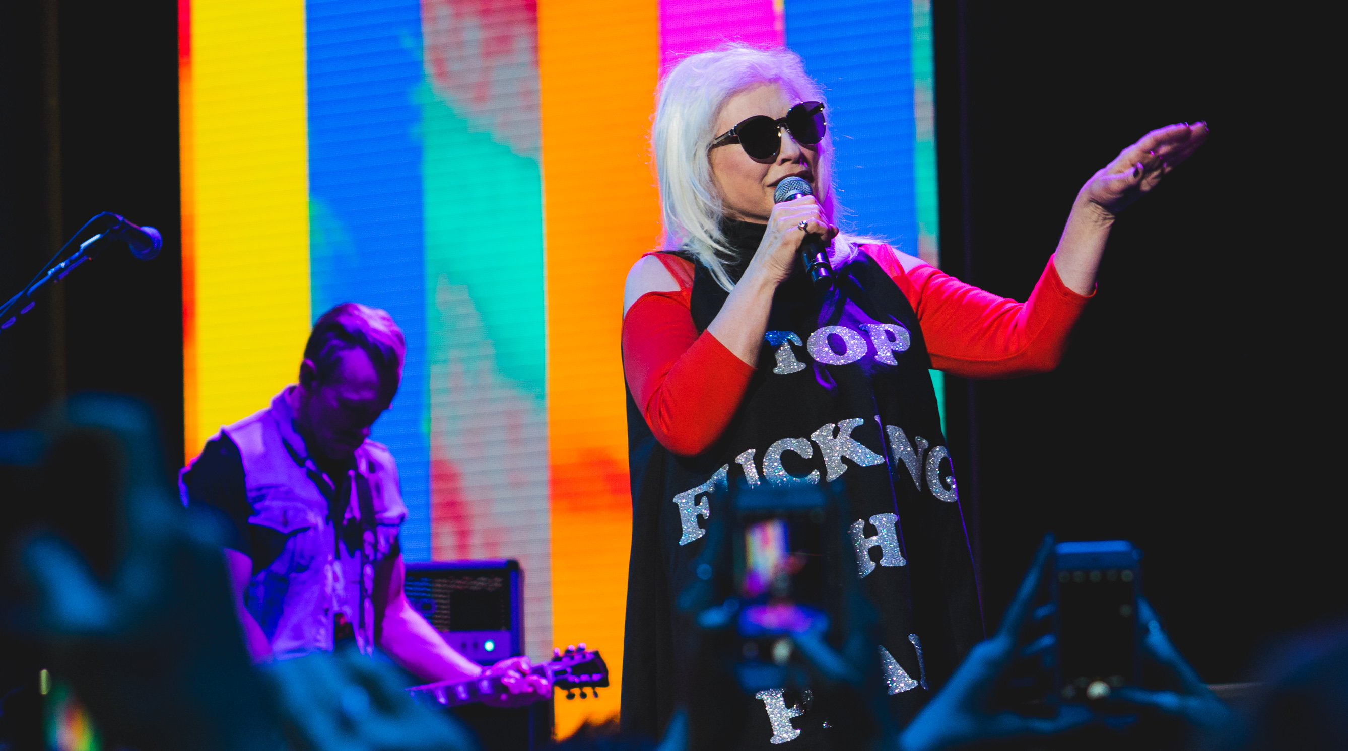 BlondieRoundhouse030517-6